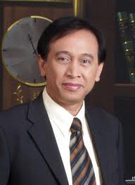 My Boss